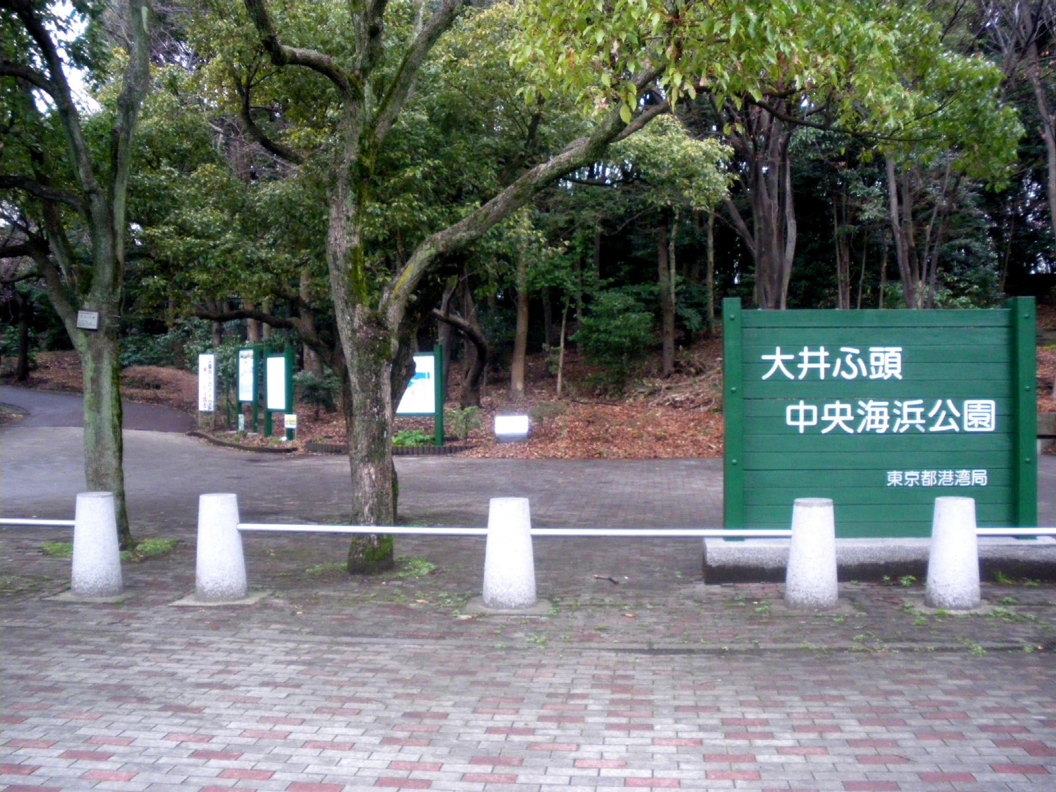 the entrance of Oi Futo Chuo Kahin Park(Shinagawa and Ota,Tokyo)